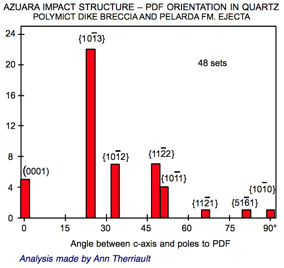 PDF's Azuara Impact, Analysis made by Ann Therriault